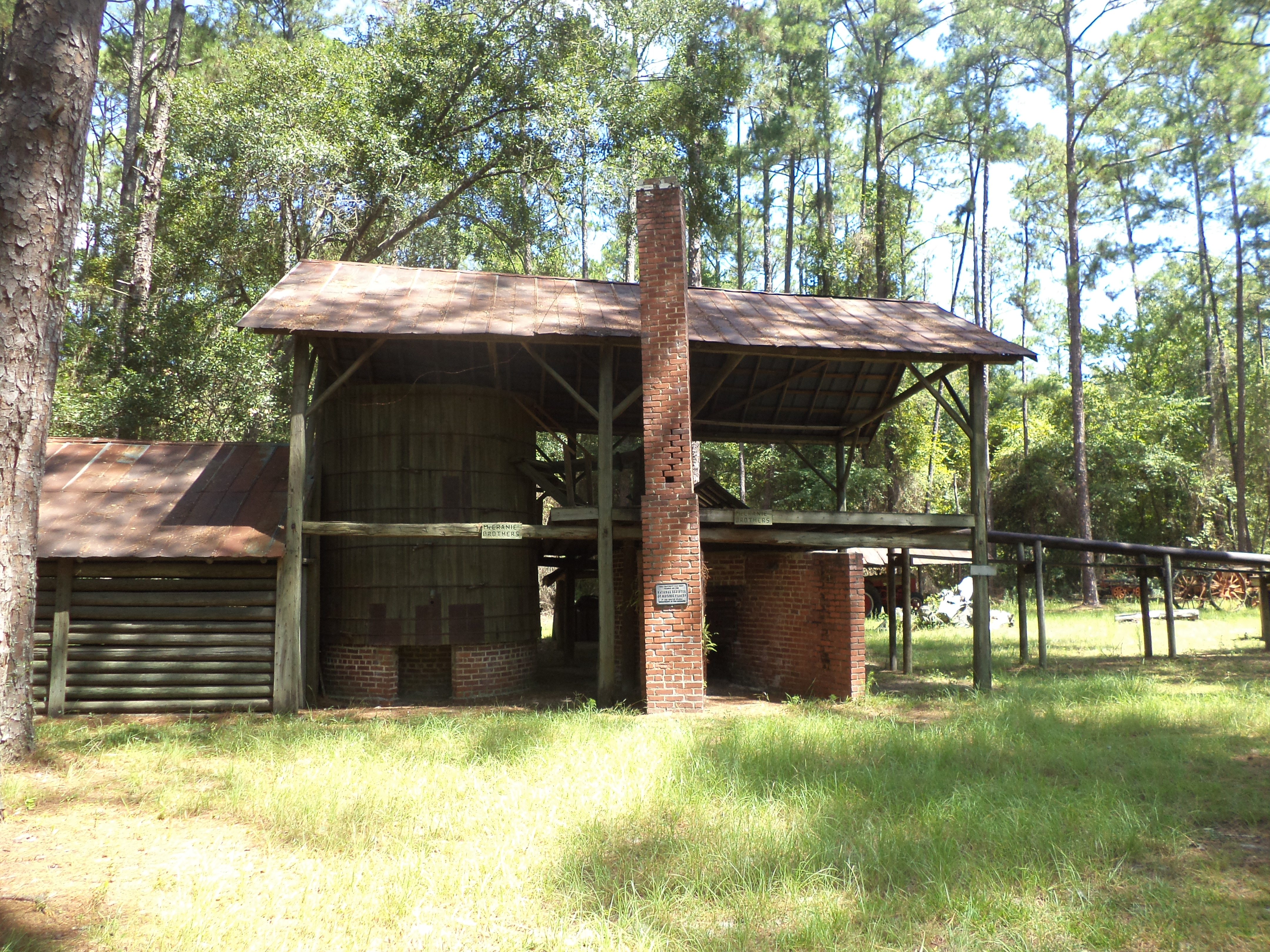 McCranies Turpentine Still, Atksinson County, Georgia